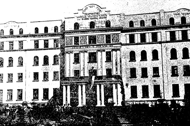 Jeszywas Chachmej Lublin